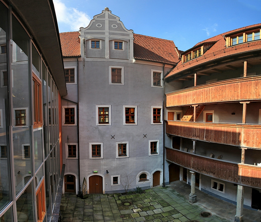 Pirna, Dohnaische Straße 76 (cultural heritage monument): inner courtyard of the public library.